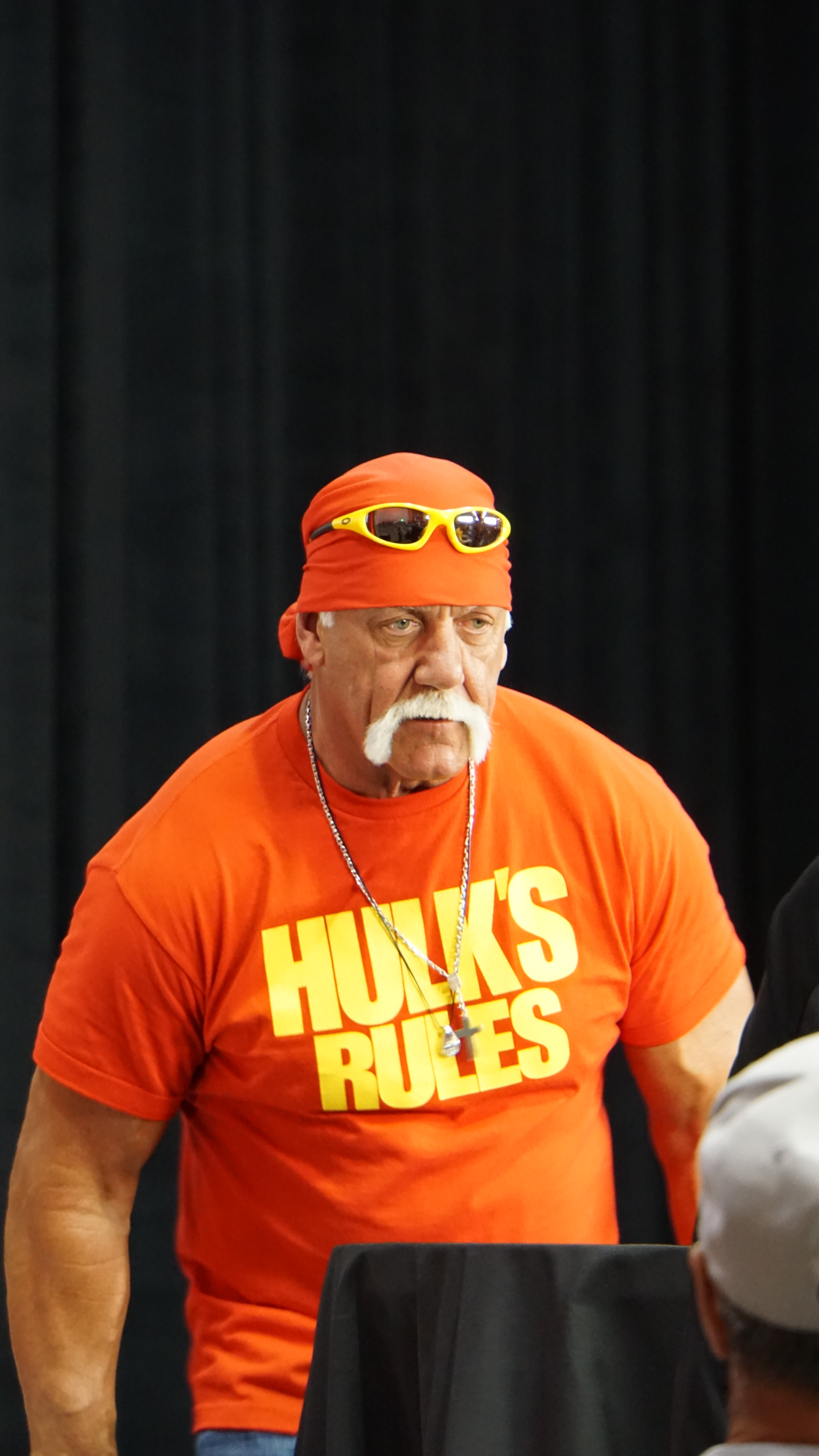 Hulk Hogan